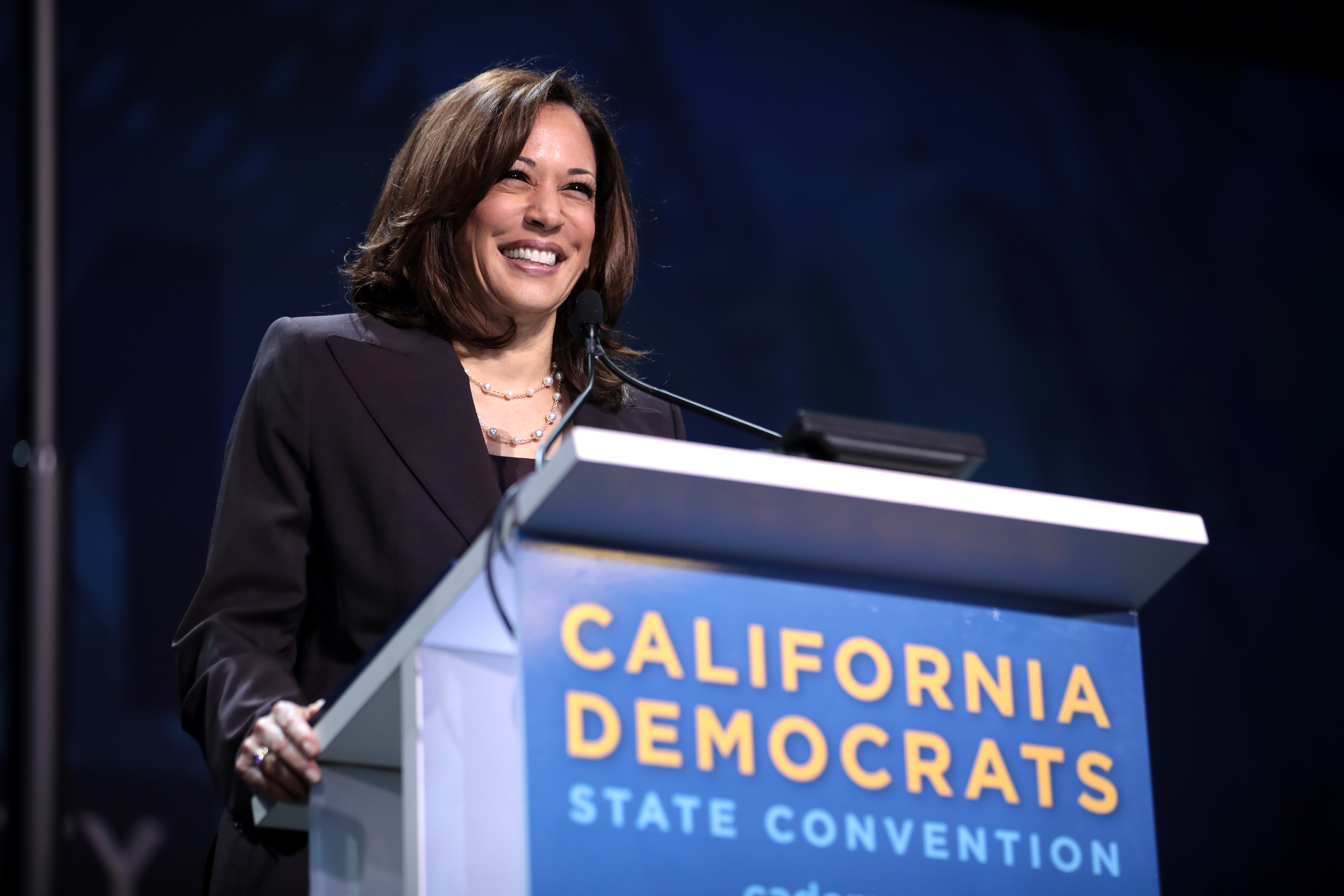 U.S. Senator Kamala Harris speaking with attendees at the 2019 California Democratic Party State Convention at the George R. Moscone Convention Center in San Francisco, California.